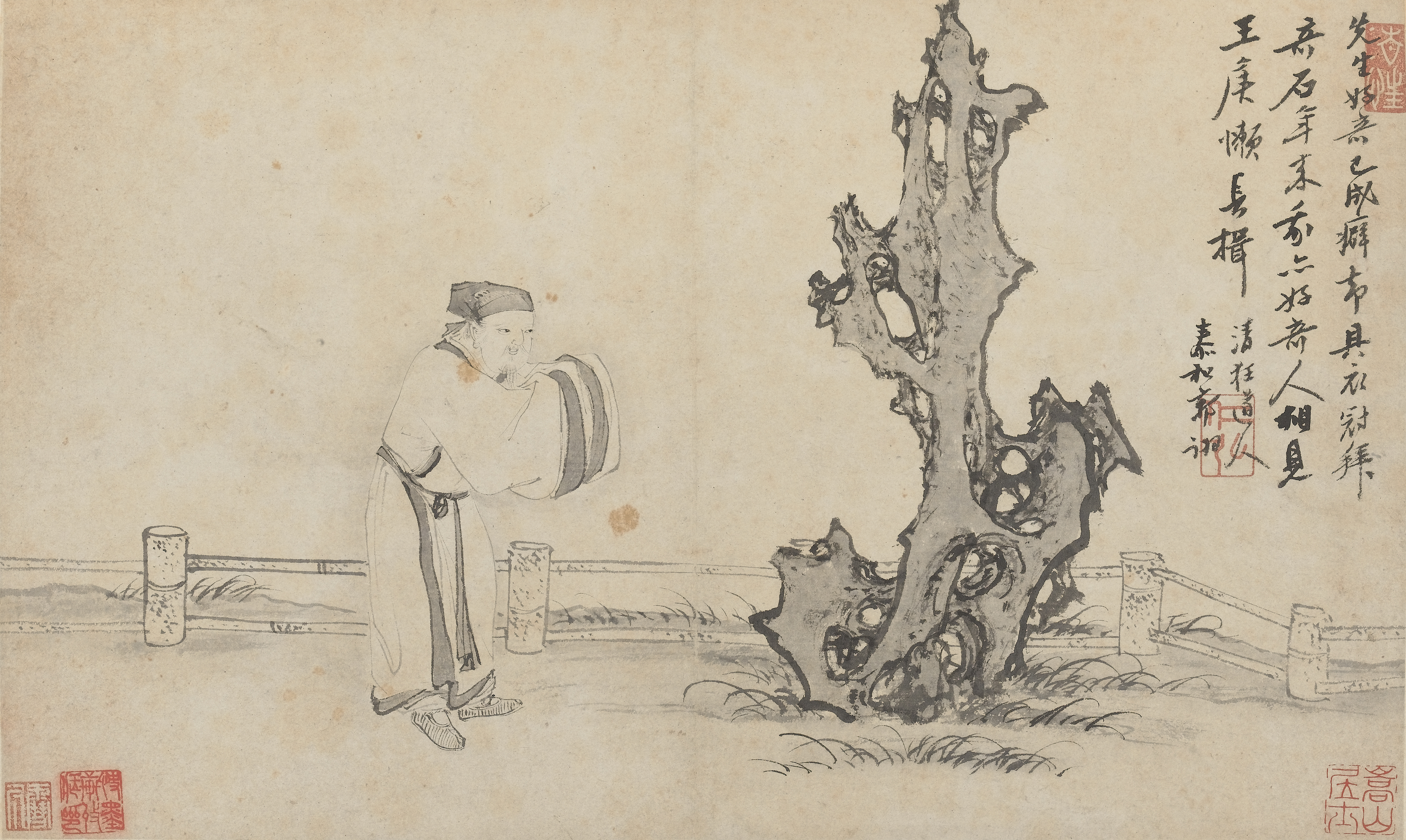 "The scholar-artist Mi Fu was an eccentric of the eleventh century, and one of the four great calligraphers of the Song dynasty. It was well-known that he had a peculiar admiration for certain rocks. In this period, men of culture collected and placed in their gardens rare and unusual rocks from Lake Tai, which had become pitted and worn by the actions of wind and waves over many centuries. Mi Fu believed that some these rocks had their own souls and he was in the habit of paying them his respects, by bowing before them as if they were venerable old gentlemen."— Chester Beatty Library